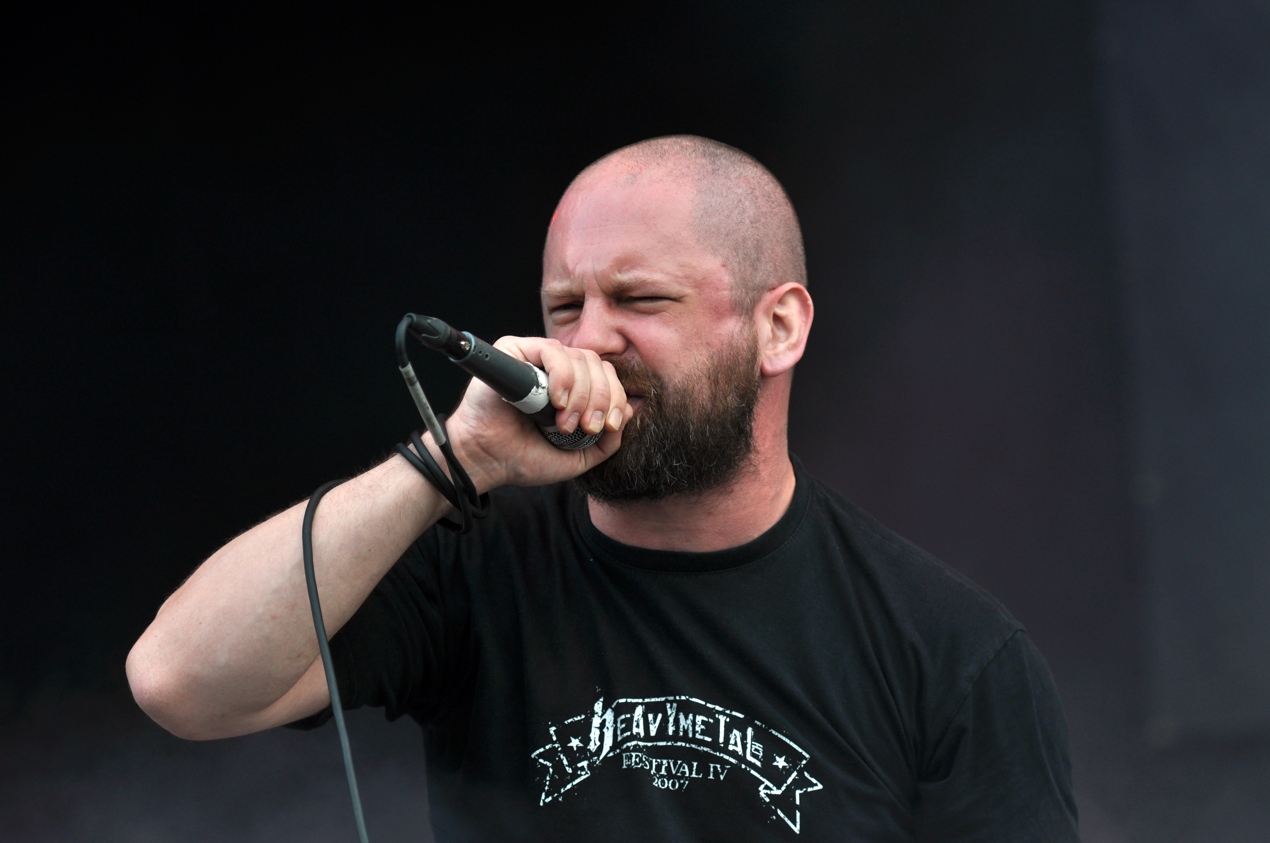 Anaal Nathrakh at Party.San Metal Open Air 2013